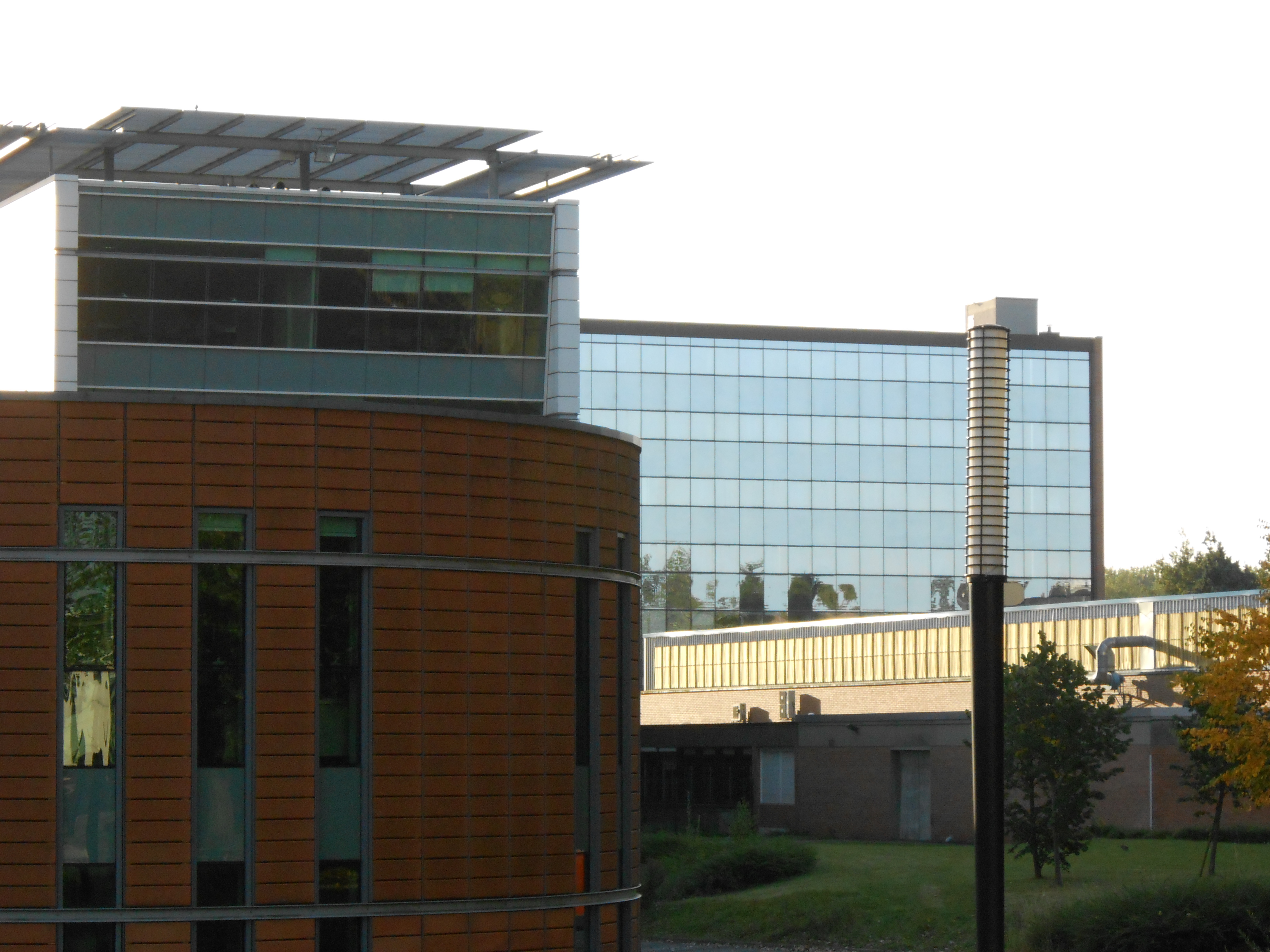 University Lille Nord de France - Campus Lille 1 - Cité scientifique - Buildings of École centrale de Lille and Polytech'Lille